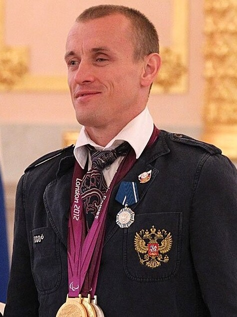 Presenting state decorations to London Paralympic Games champions and medallists. Order of Honour presented to two-time champion and silver medallist Alexei Labzin.